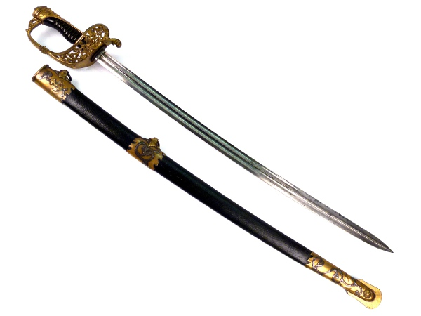 Confederate Naval Officer's Sword, Dr. Francis Land Galt 1833-1915, Galt was assigned to CSS Sumter, commanded by Raphael Semmes, and took part in her 1861-62 cruise. In mid-1862, he helped Semmes put CSS Alabama into commission and stayed with her through her entire career.